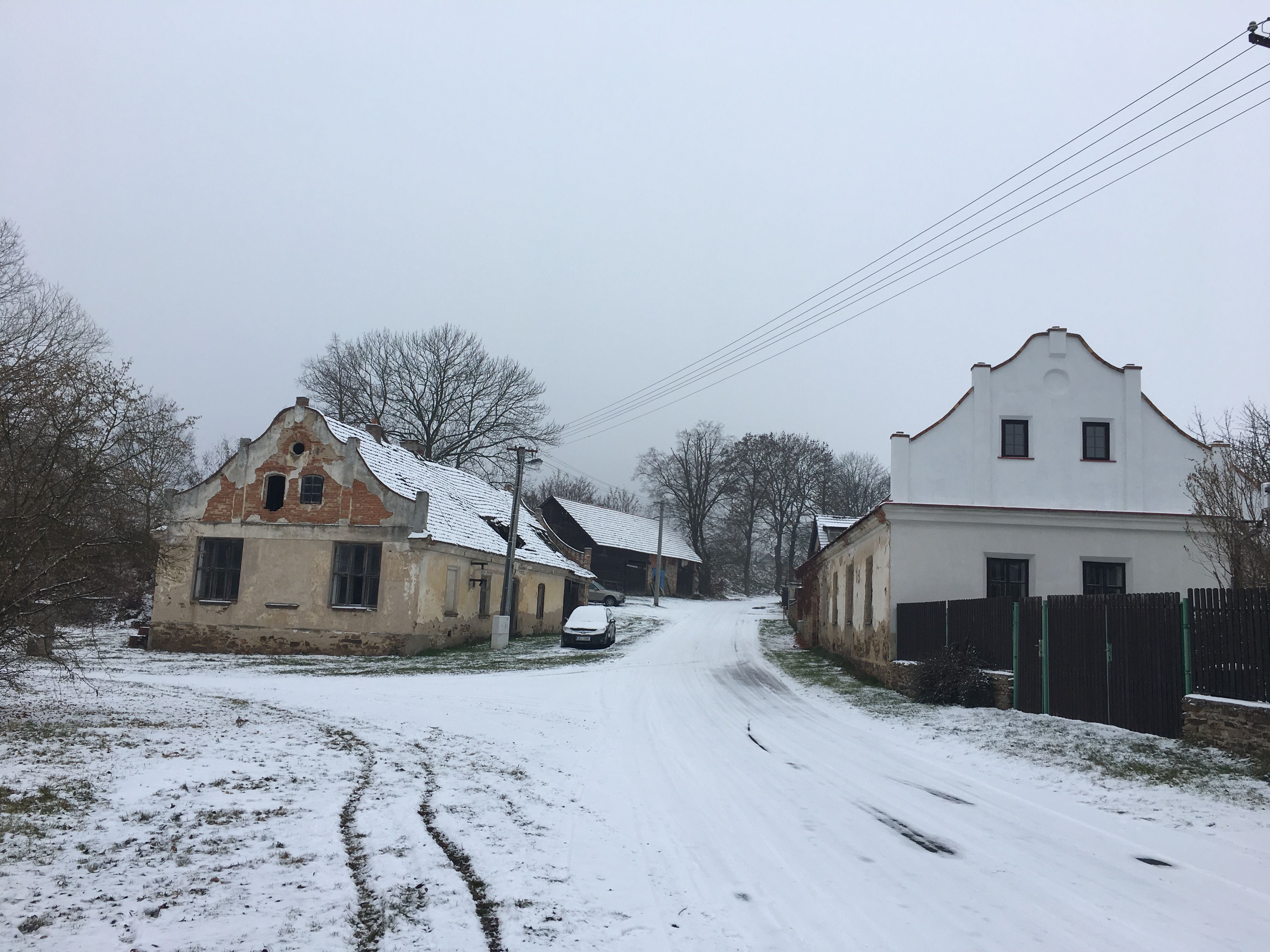 Radvanice